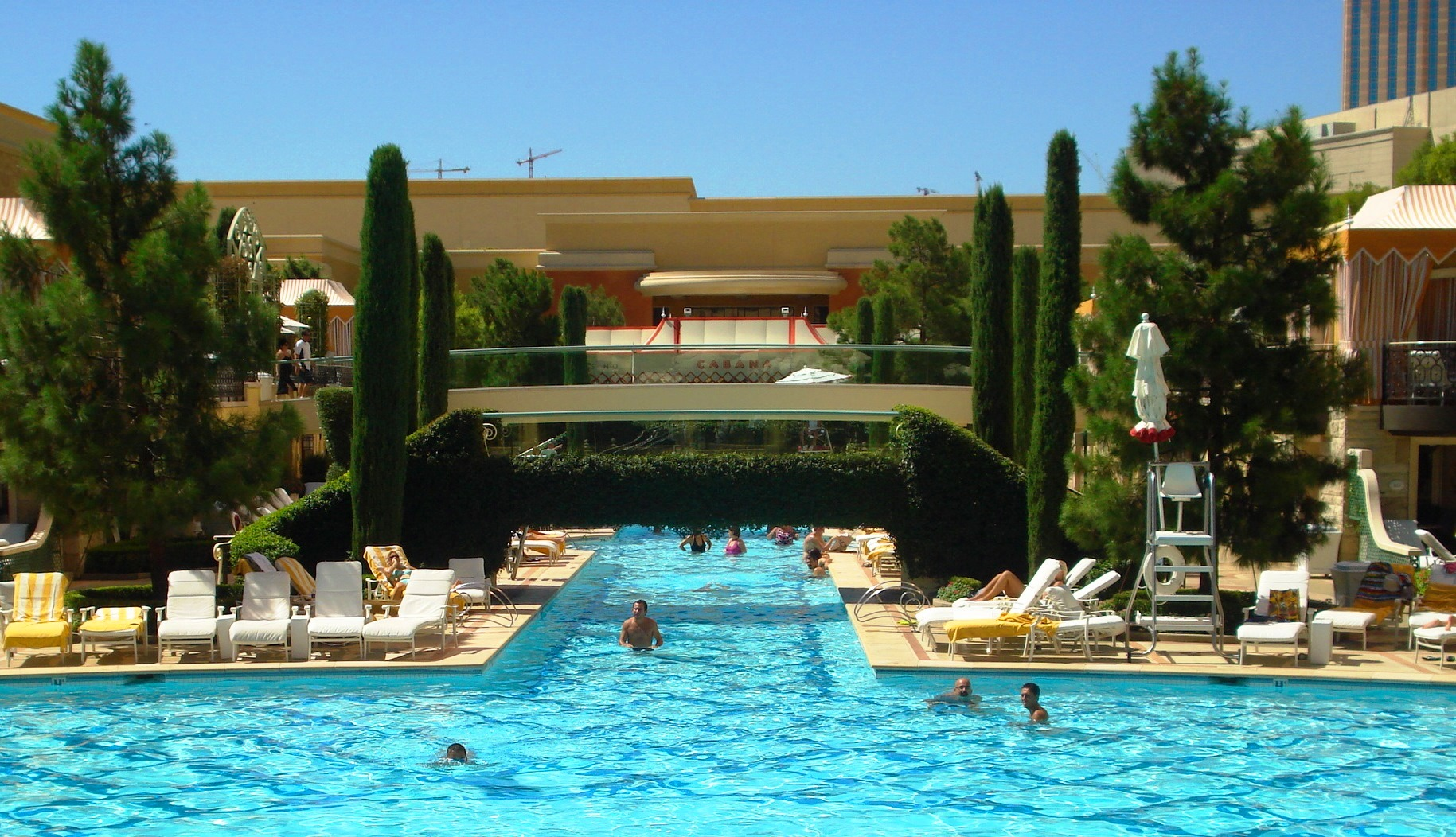 View of pool at The Wynn in Las Vegas, NV.